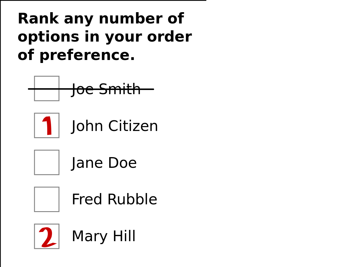 Created by User:Rspeer using Inkscape. Modified by Mark. Modified later by Kristian Vangen